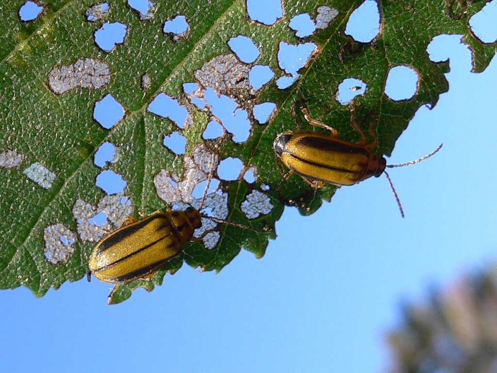 Elm Leaf Beetle (Xanthogaleruca luteola) (Müller 1766), on elm leaf - Haßloch (Pfalz), Germany